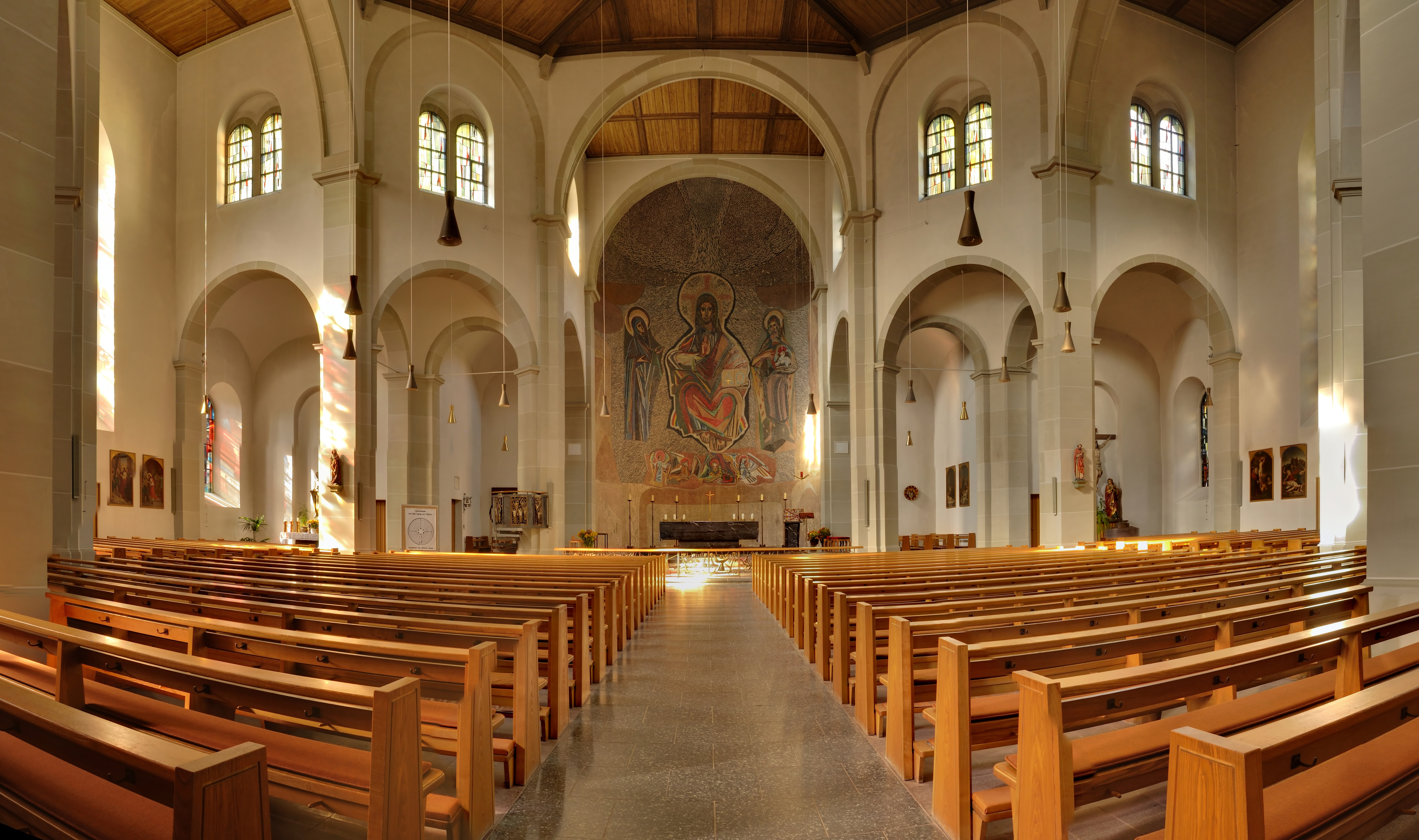 Todtnau: Saint John the Baptist Church